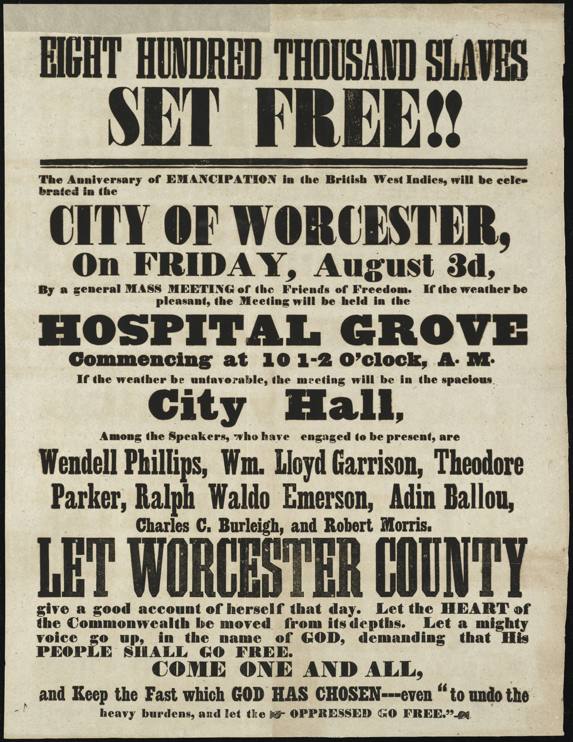 File name: 12_05_000036 Local call number: RARE BKS H.710.A10C 1849 W2 xxb Title: Eight hundred thousand slaves set free Other title information: The anniversary of emancipation in the British West Indies, will be celebrated in the city of Worcester, on Friday, August 3d [1849], by a general mass meeting of the Friends of Freedom ... Among the speakers, who have engaged to be present, are Wendell Phillips, Wm. Lloyd Garrison, Theodore Parker, Ralph Waldo Emerson, Adin Ballou, Charles C. Burliegh, and Robert Morris. Genre: Broadsides Created/Published: [Worcester, Mass. : s.n.] Date issued: 1849 (inferred) Physical description: 1 broadside ; 62 x 47 cm. General notes: Title from item. Date notes: Date supplied by cataloger. Subjects: Antislavery movements--Massachusetts; Slaves--Emancipation--West Indies, British--Anniversaries, etc; Phillips, Wendell, 1811-1884; Parker, Theodore, 1810-1860; Garrison, William Lloyd, 1805-1879; Emerson, Ralph Waldo, 1803-1882; Ballou, Adin, 1803-1890; Friends of Freedom (Boston, Mass.) Collection: Anti-Slavery Collection Location: Boston Public Library, Rare Books Department Rights: No known copyright restrictions.